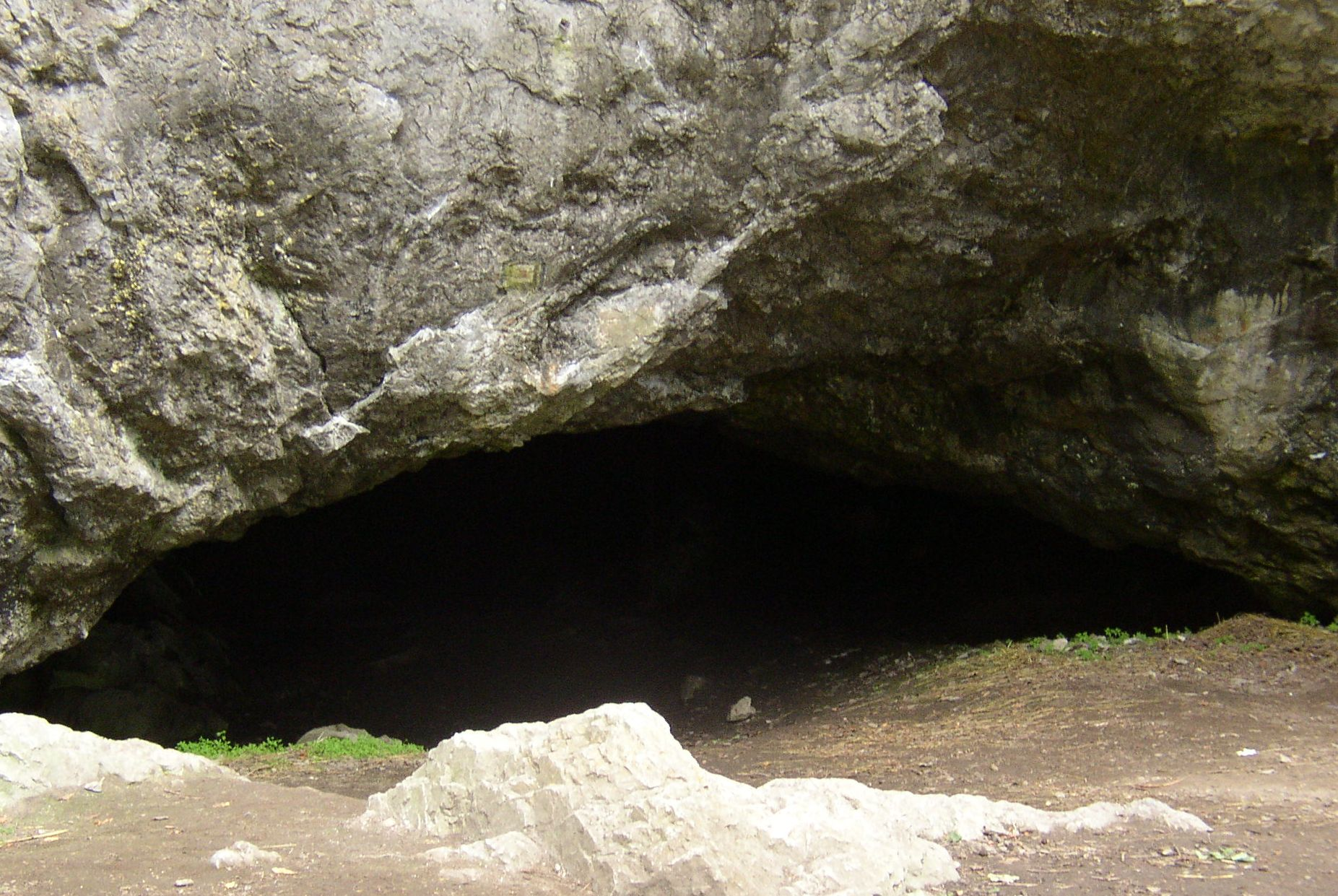 Entrance of the Hladomorna (Dungeon) Cave near Holštejn, Czech Republic.